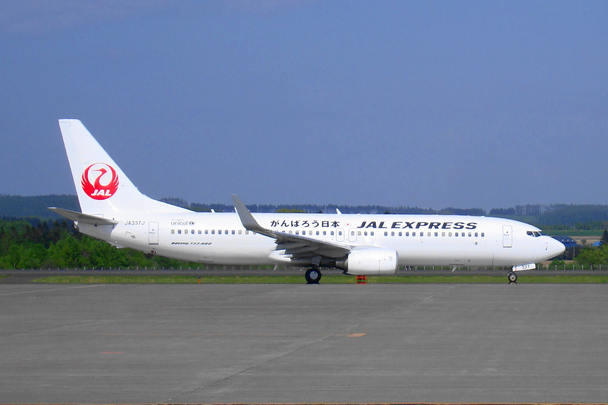 Japan Airlines(JAL Express) Boeing 737-800 JA337J. "Do its best Japan(がんばろう日本)" painting by the Aftermath of the 2011 Tōhoku earthquake and tsunami.